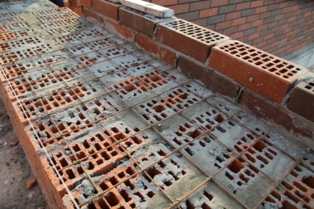 Использование композитной сетки